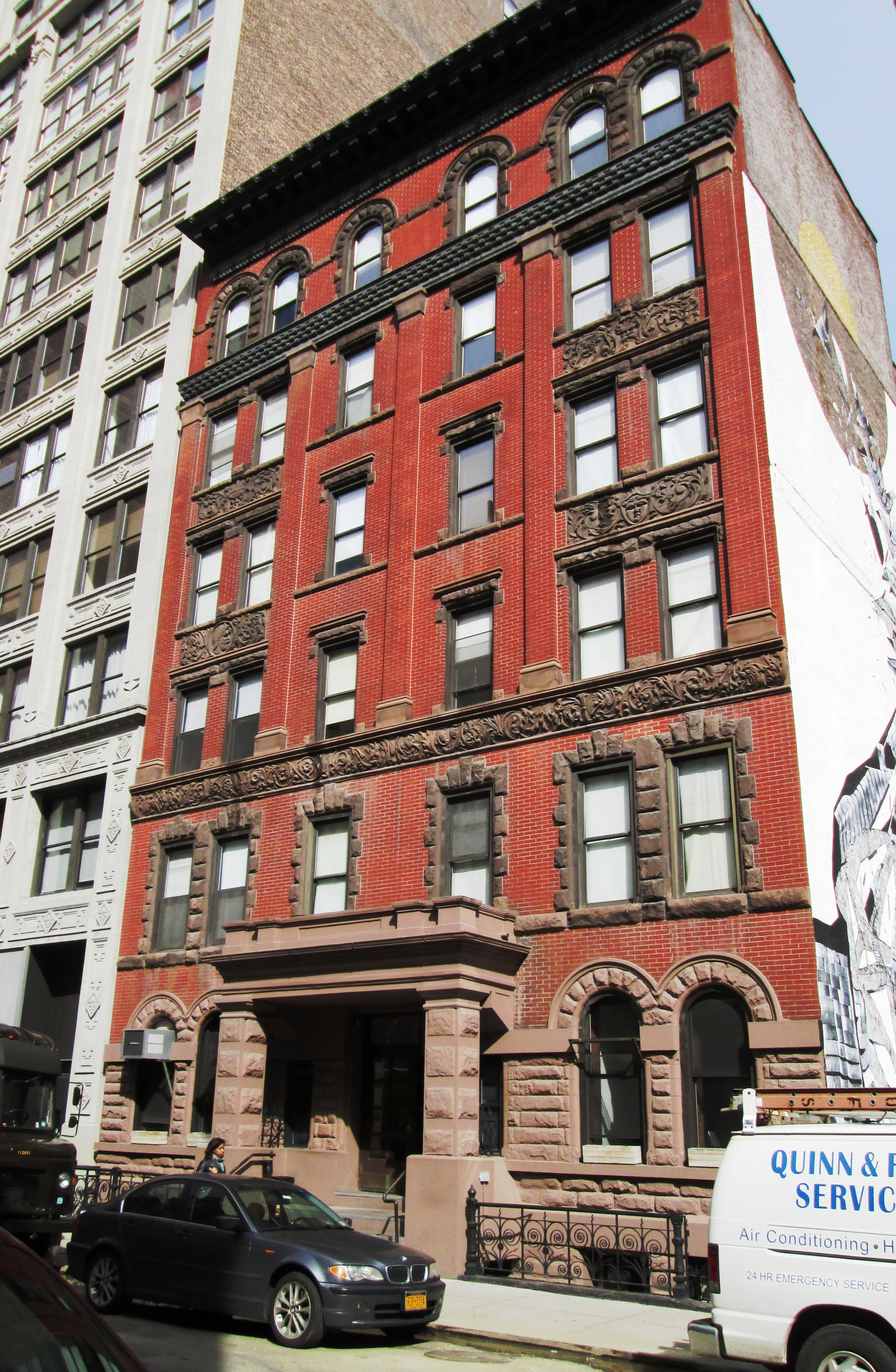 The St. Francis Residence I, located at 125 East 24th Street between Lexington and Park Avenues in the Rose Hill neighborhood of Manhattan, New York City, was built in the 19th Century in the Romanesque Revival style as the home of William Francis Oakley. Oakley died in November 1888, and the building became the Beechwood Hotel, a residential hotel aimed at the carriage trade. In 1937, the League of American Writers pruchased it and turned it into a school for writers. By 1951, the building was a Single Room Occupancy hotel with a Chinese laundry on the street floor. In 1980, Franciscan friars from the St. Francis of Assisi Monastery on West 31st Street, through their fundraising organization, the Friends of the Poor, bought the building for $550,000 and converted it into the St, Francis Residence to provide a home for the homeless; two years later they bought 155 West 22nd Street for a second St. Francis Residence, and then another in 1987 at 148 Eighth Avenue between 17th and 18th Streets. The residences provides social and psychiatric services to their occupants as well as art workshops; a tenants council participates in the running of the shelters. (Sources: "From Society Pages to Homeless Shelter-- The Beechwood 125 E. 24th Street" and "St. Francis Friends of the Poor")